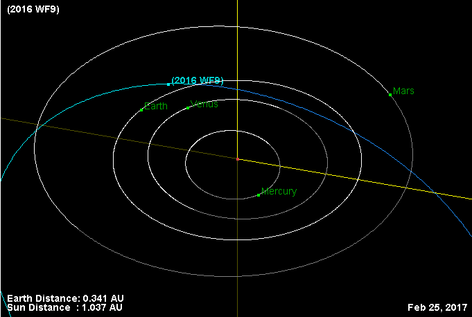 Orbit Diagram - Asteroid 2016 WF9 on 25 February 2017, closest approach to Earth JPL Small-Body Database Browser (2016 WF9). JPL (30 December 2016). Retrieved on 30 December 2016. NASA's NEOWISE Mission Spies One Comet, Maybe Two. NASA (29 December 2016). Retrieved on 29 December 2016.